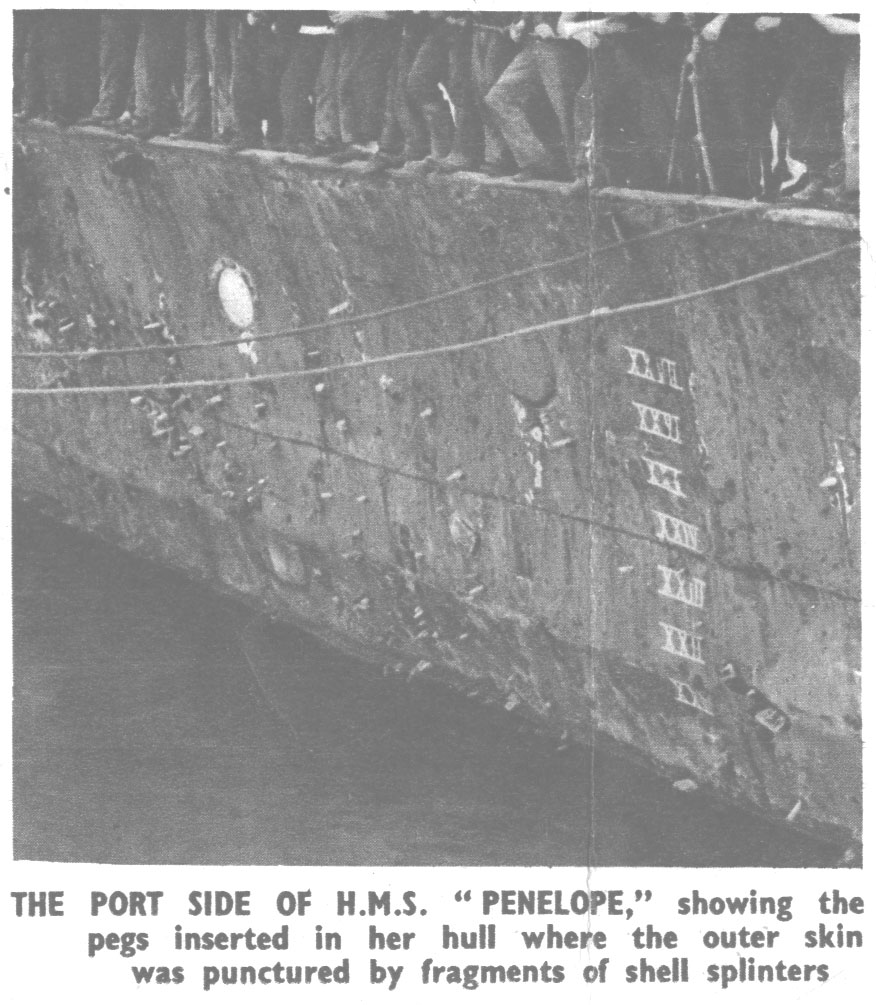 Pic from 1942 showing damage